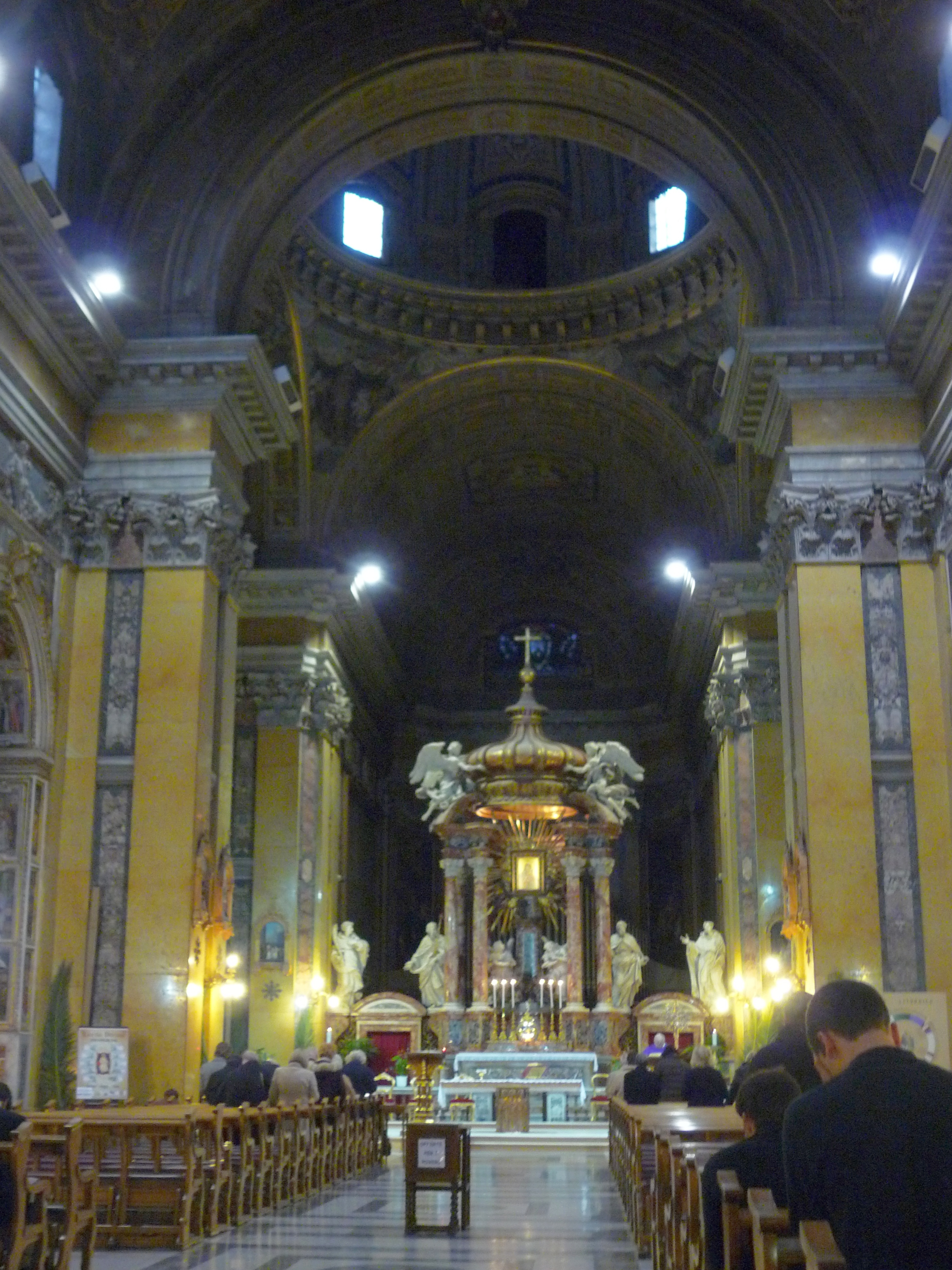 Carmelitan Church of Santa Maria in Traspontina (interior)